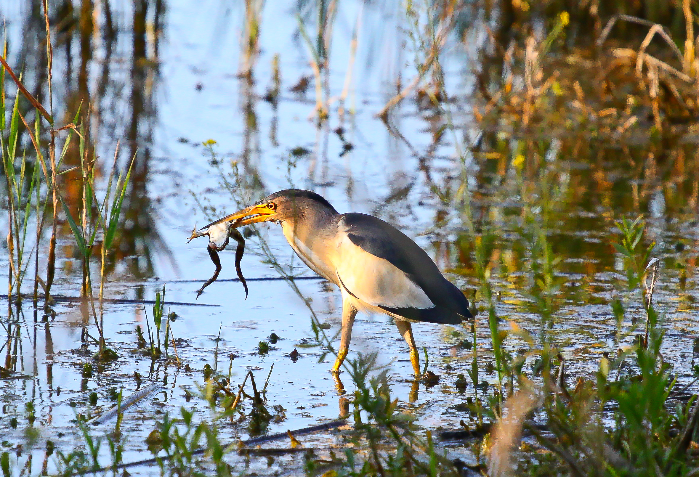 The little bittern (Ixobrychus minutus) is a wading bird in the heron family Ardeidae, native to the Old World, breeding in Africa, central and southern Europe, western and southern Asia, and Madagascar. Picture from Aldomirovtsi marsh, Bulgaria.